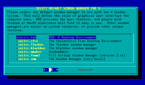 xwmconfig script slackware